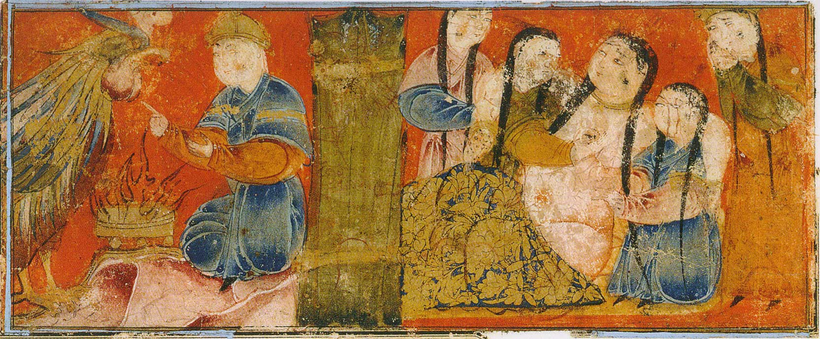 Rustam's Birth. Illustration of the Shahname. Isfahan (?), 1st quarter of 14th century. Water colours and gold on paper. Original size: 8 cm x 20 cm. Staatsbibliothek Berlin, Orientabteilung, Diez A fol. 71, p. 7 no. 2. On the right is the Simurgh bird, which has just been called by Rustam's father Zal through the burning of one of the bird's feathers.